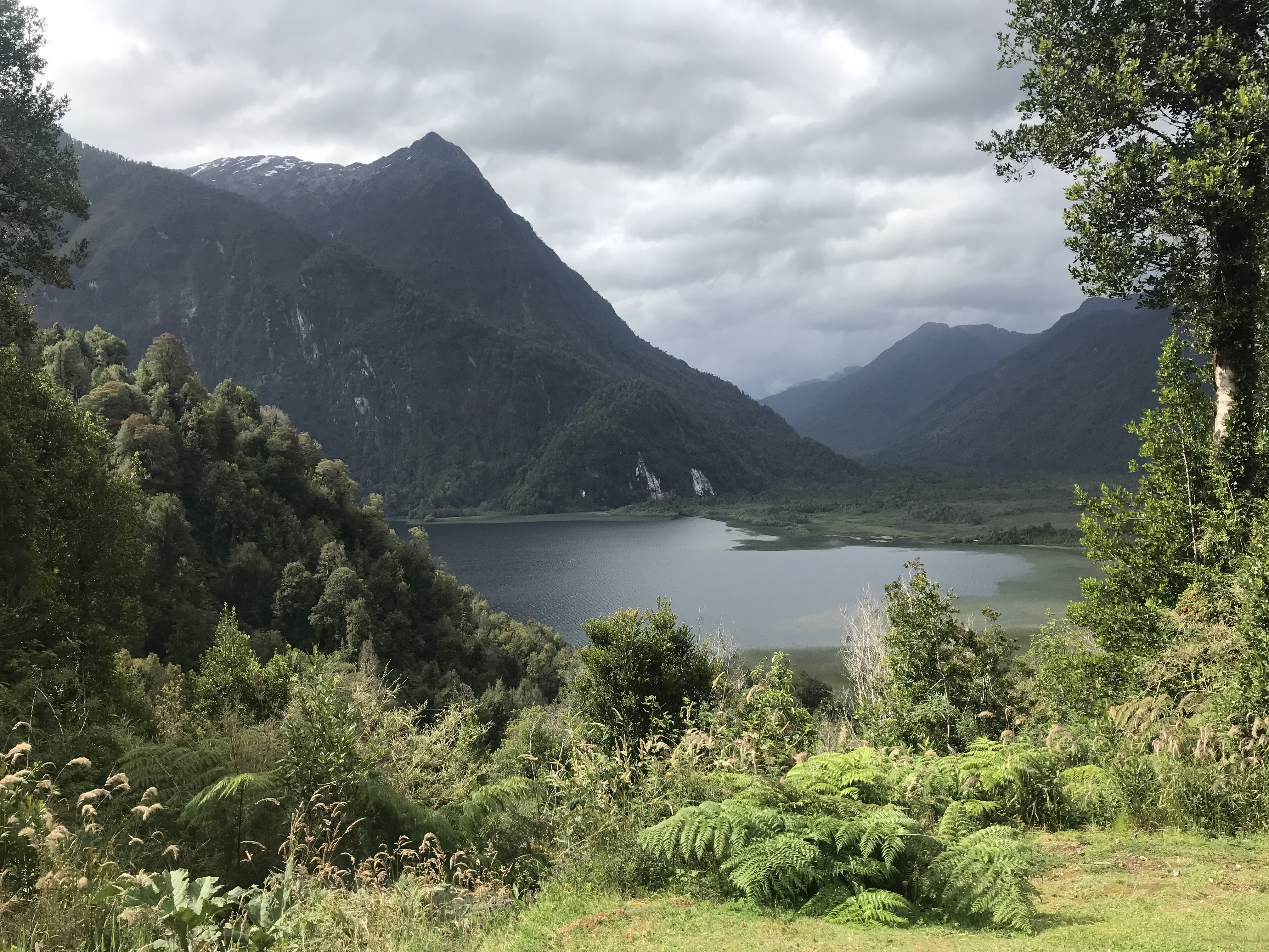 View in the Pumalin National Park, Chile